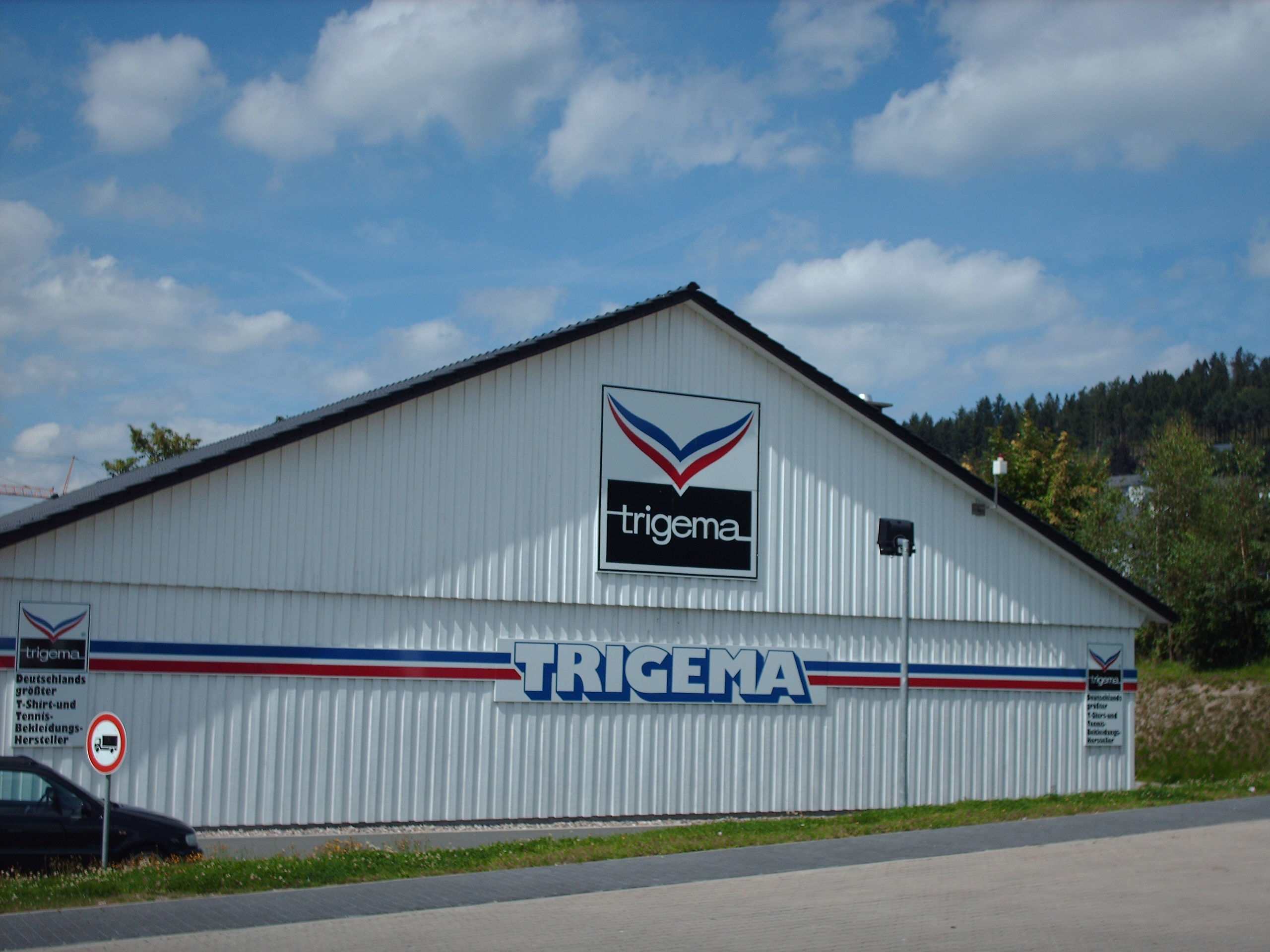 Trigema shop Bad Fredeburg, Schmallenberg, Germany check usage